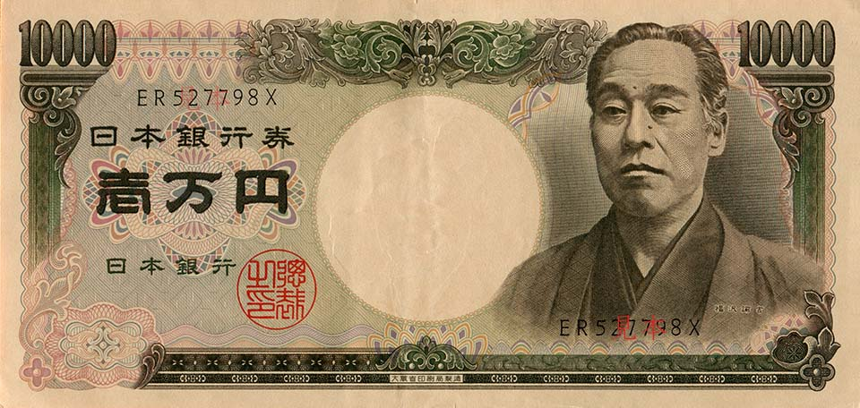 Series D 10000 Yen Bank of Japan note. Portrait: Fukuzawa Yukichi. First issued in 1984. Issue suspended in 2007. Legal tender. 160mm x 76mm.